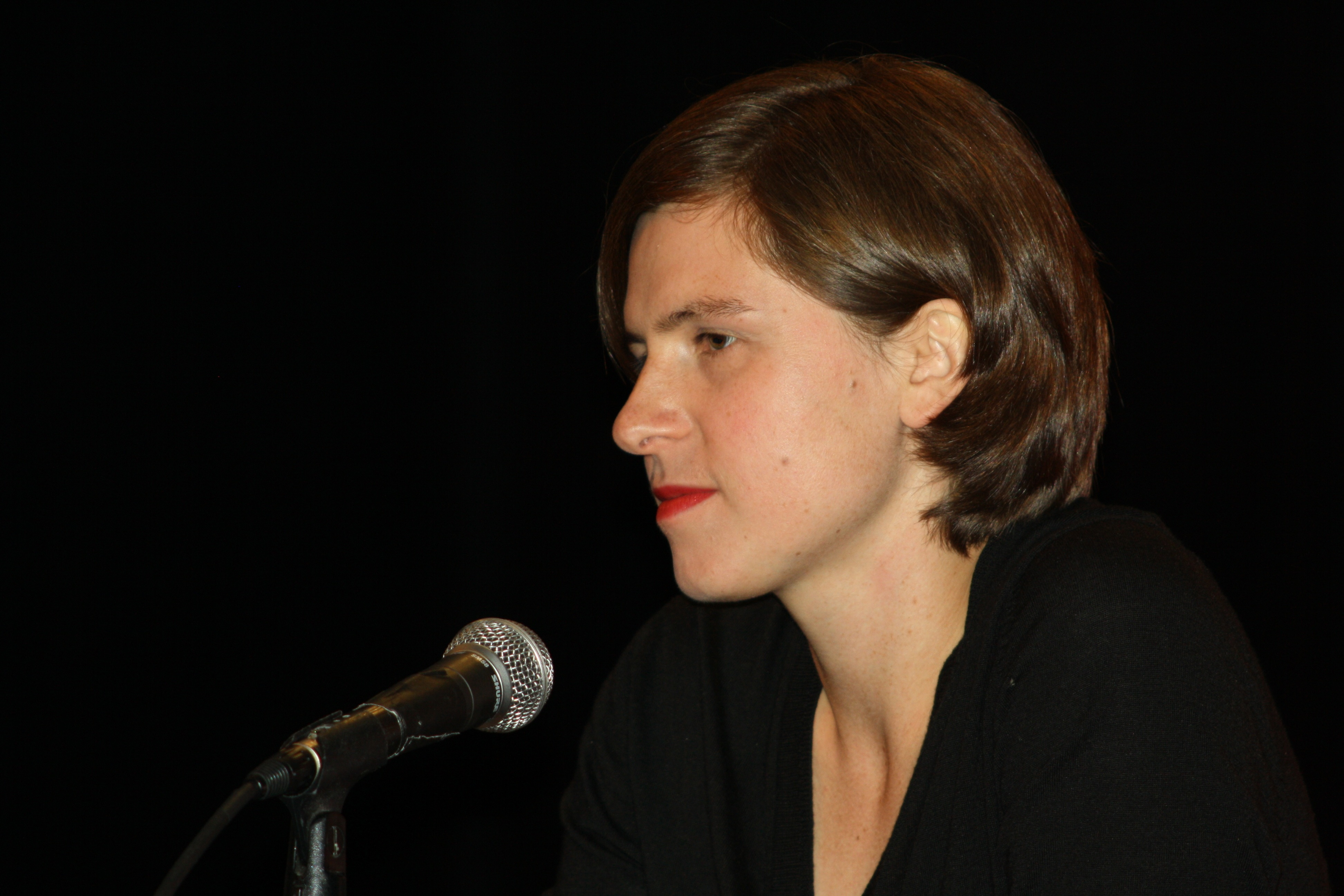 German writer Judith Schalansky at the Erlangen writers festival 2011